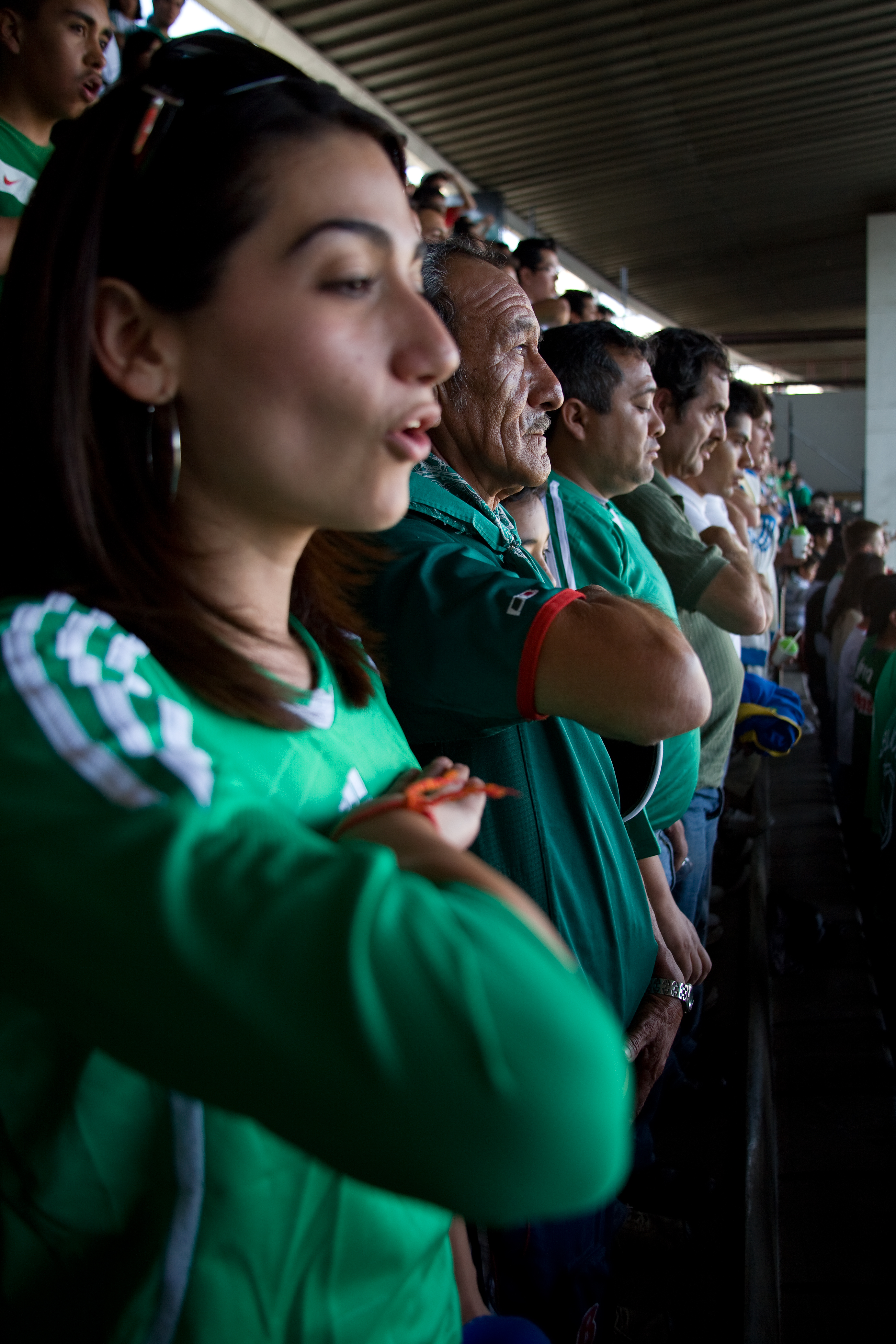 Mexican soccer singing the Mexican National Anthem (Hymno Nacional)